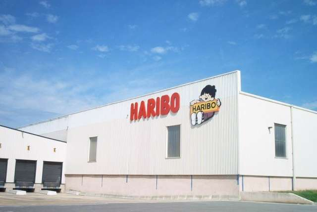 Haribo Plant in Uzess, France. Uploaded by User:MarkGGN.